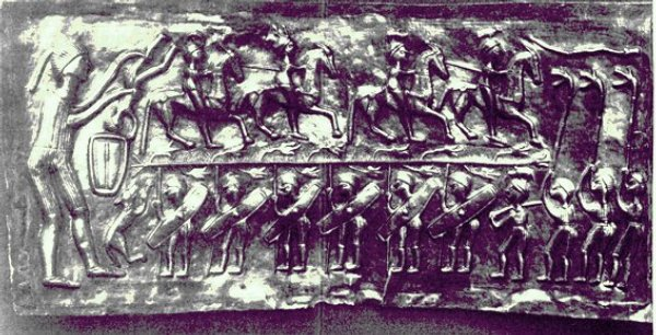 Plate E of the Gundestrup cauldron (see also Media:Gundestrup A.png) taken from